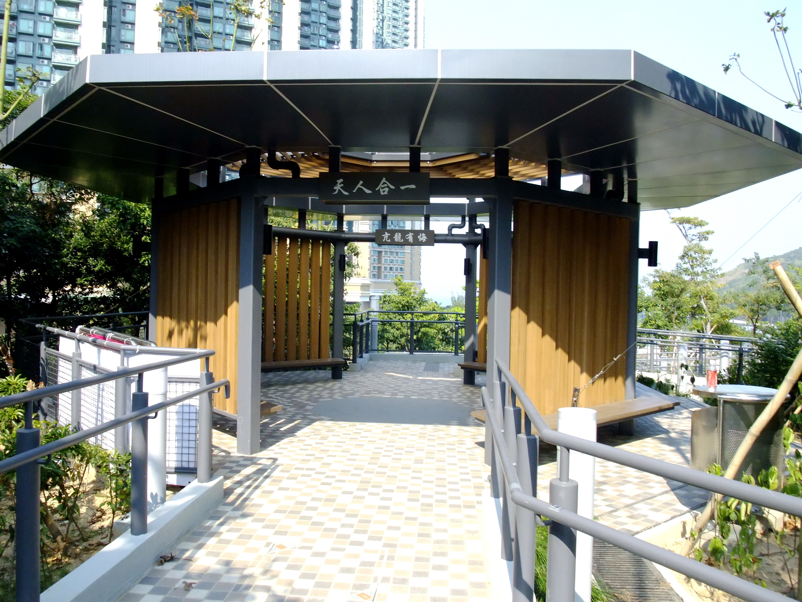 A pavilion in the Trail of Health, Tung Chung North Park, New Territories, Hong Kong.